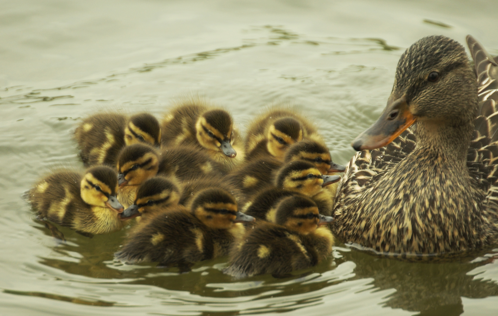 Anas platyrhynchos, duck with ducklings – Couldn't resist one more... :)